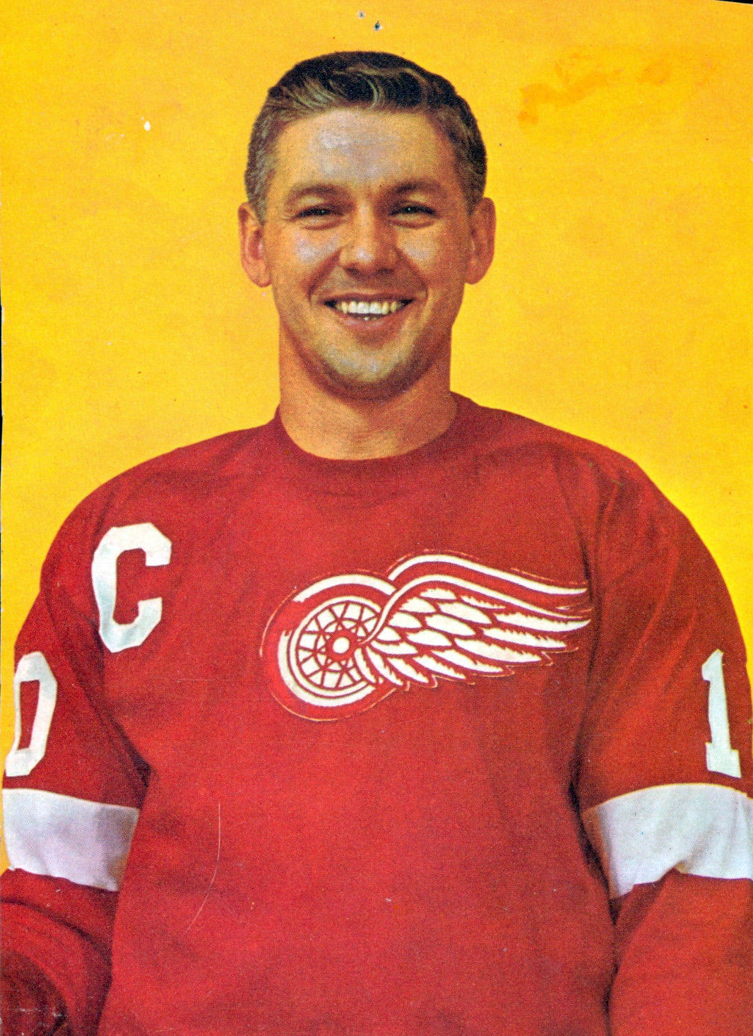 Trading card photo of Alex Delvecchio as a member of the Detroit Red Wings. These cards were printed on the backs of Chex cereal boxes in the US and Canada from 1963 to 1965. Those collecting the cards cut them from the back of the boxes.